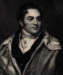 Archibald Acheson, governor of British North America